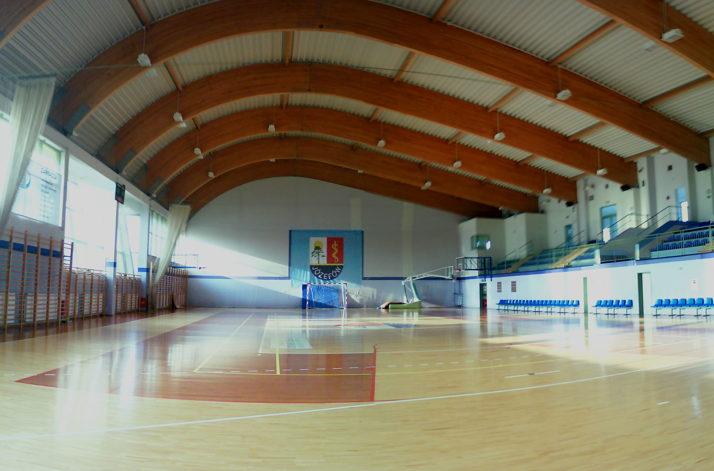 Sports hall. Integracyjne Centrum Sportu i Rekreacji, Józefów, Otwock County, Poland.